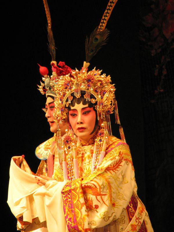 Liza Wang in a Chinese operaChinese Drama